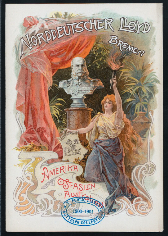 SS Kaiser Wilhelm der Grosse: Envelope of a menu card; contains the menu for dinner on April 13, 1900